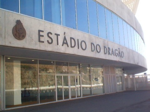 Main entrance to the Estadio do Dragão. photo taken by WolfenSilva.